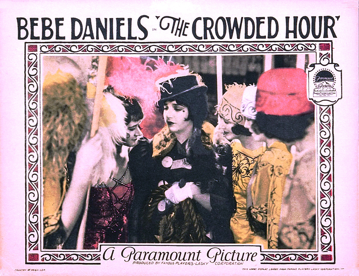 Lobby card for the American drama film film The Crowded Hour (1925). There are no copyright marks on the item. At lower left is Country of origin USA. At lower right is This lobby display leased from Paramount Famous Players Lasky Corporation.